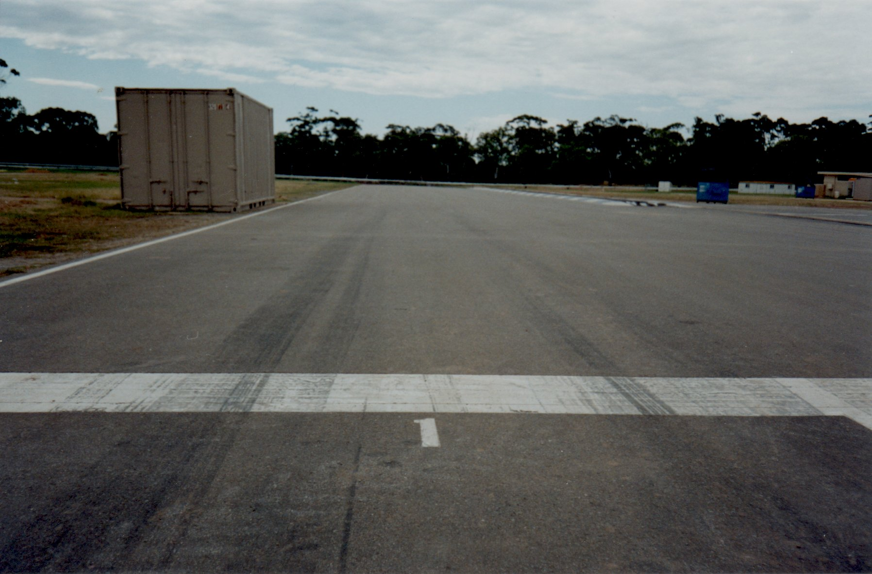 The view from Pole Position of the Adelaide Grand Prix Circuit. The track infrastructure is not in place.